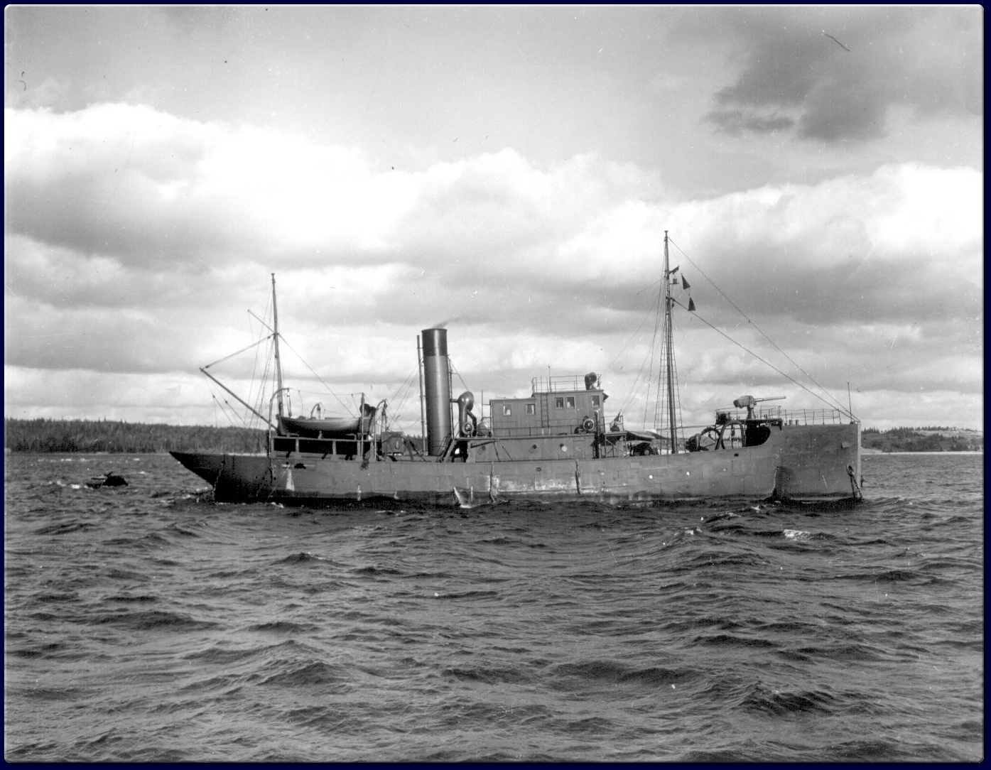 Photograph of Canadian Battle class naval trawler HMCS Arleux.